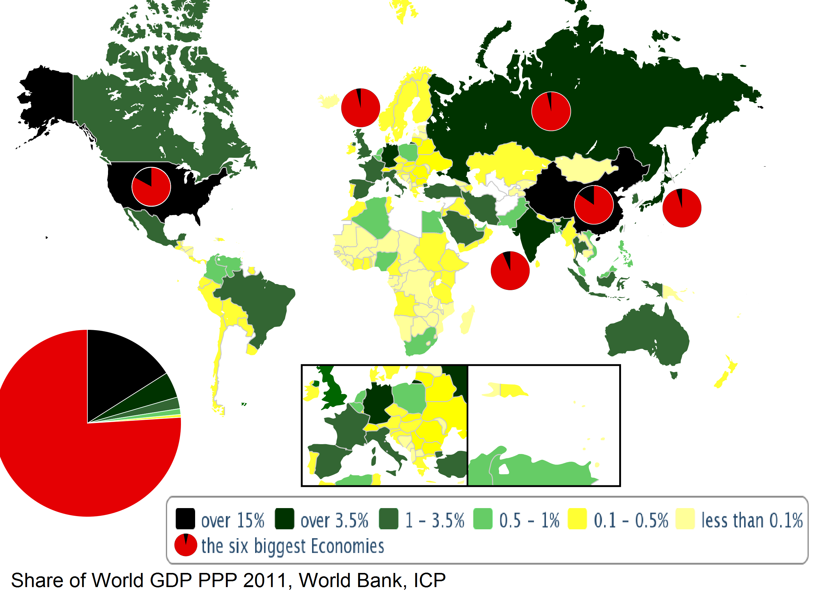 China has macau and HK together counted. Data based on links below